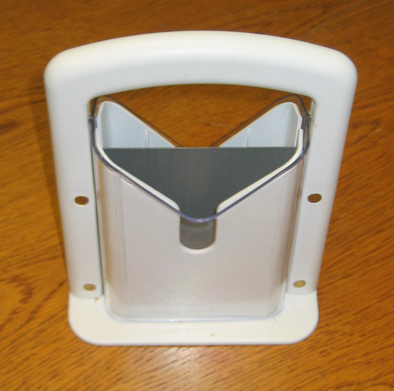 Specialized device for cutting bagels. Photo by Dante Alighieri